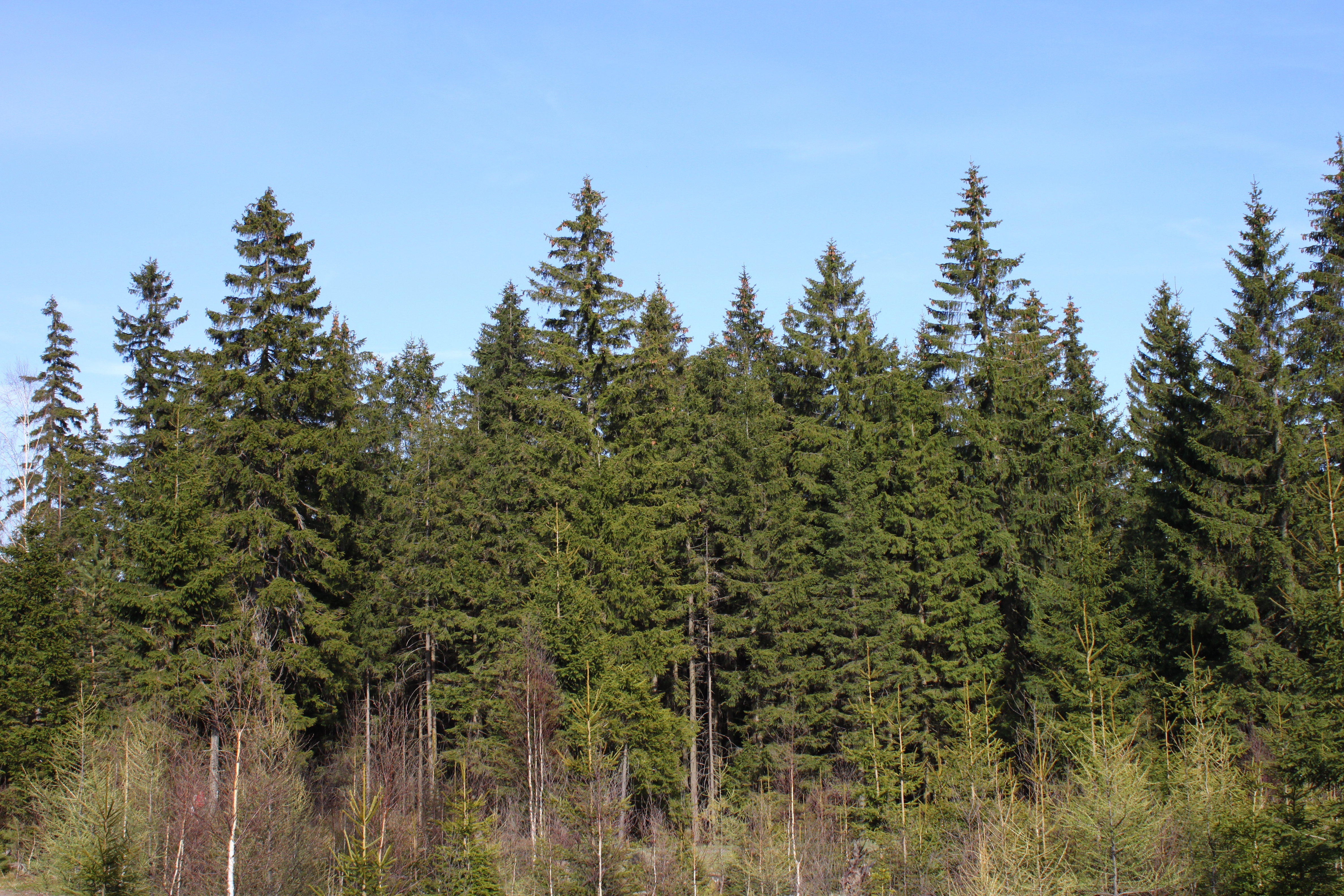 Picea abies in Stołowe Mountains, Poland